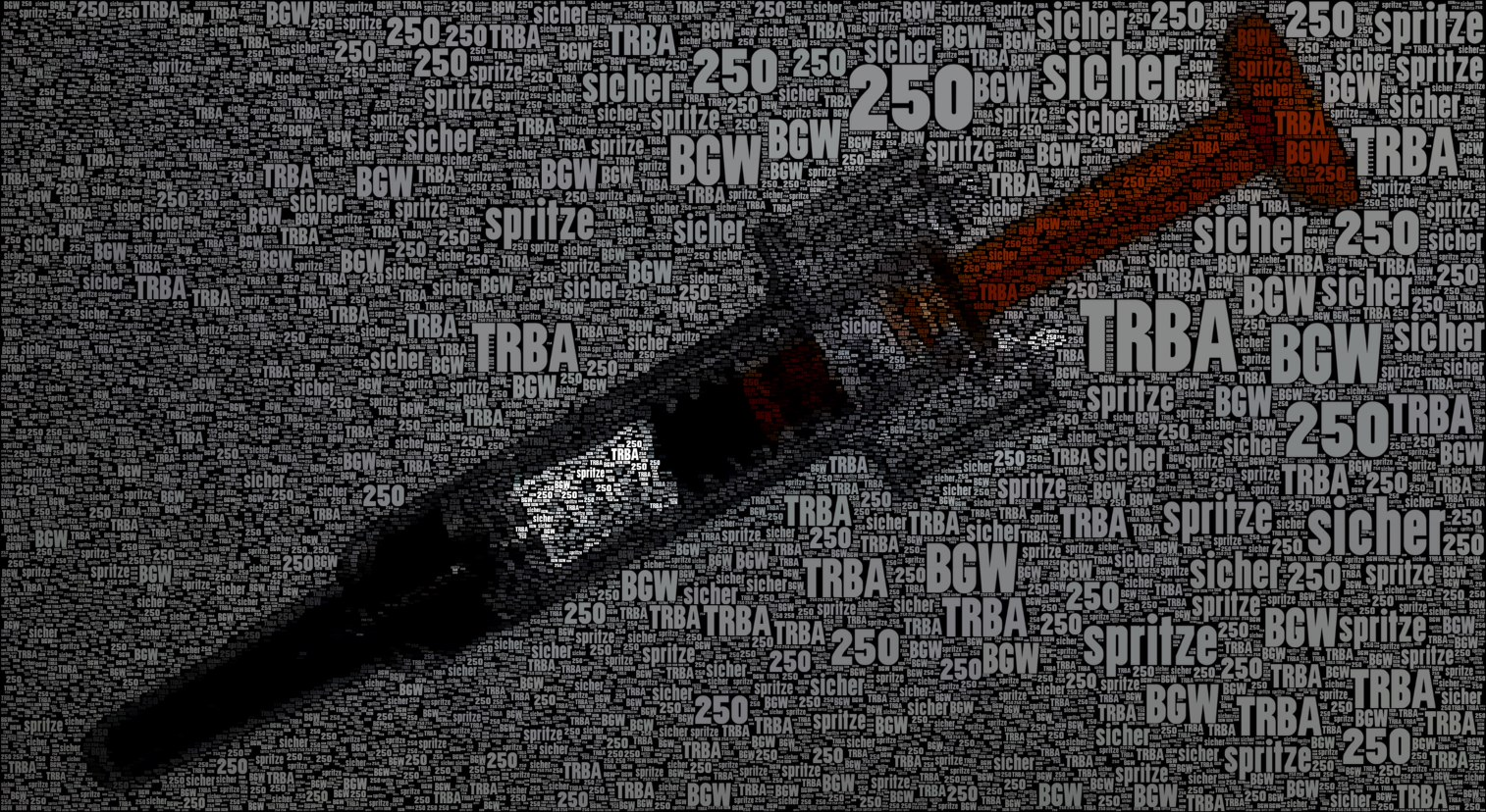 Illustration about the German guidelines on using safe injection tools. The acronym is 'TRBA 250'.